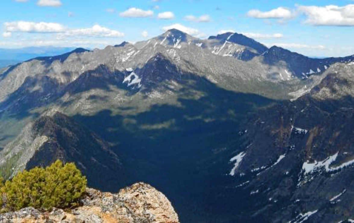 The Gardner massif seen from Wallaby Peak with North Gardner centered, and Gardner to the right and shaded. North Cascades. June 26, 2016.